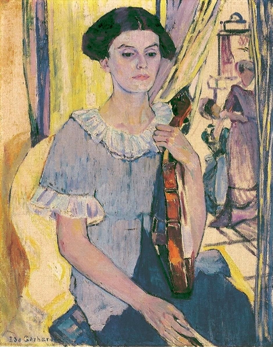 Portrait of Elli Bößneck